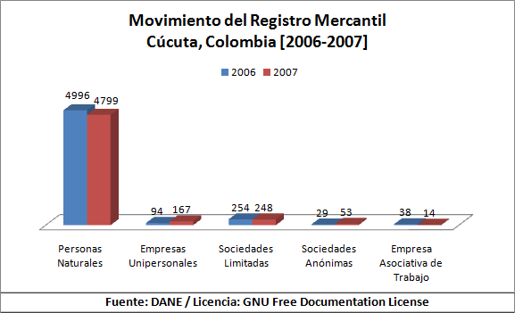 Trade Registrations in Cúcuta, Colombia